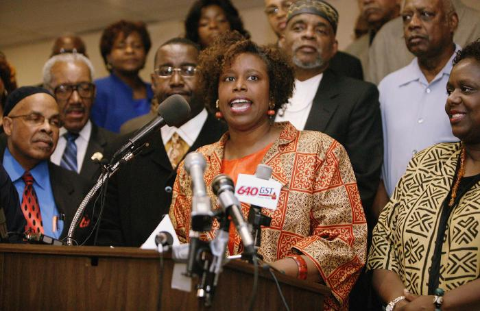 uploaded JPEG version, more compatible with online compression schemes than PNG version